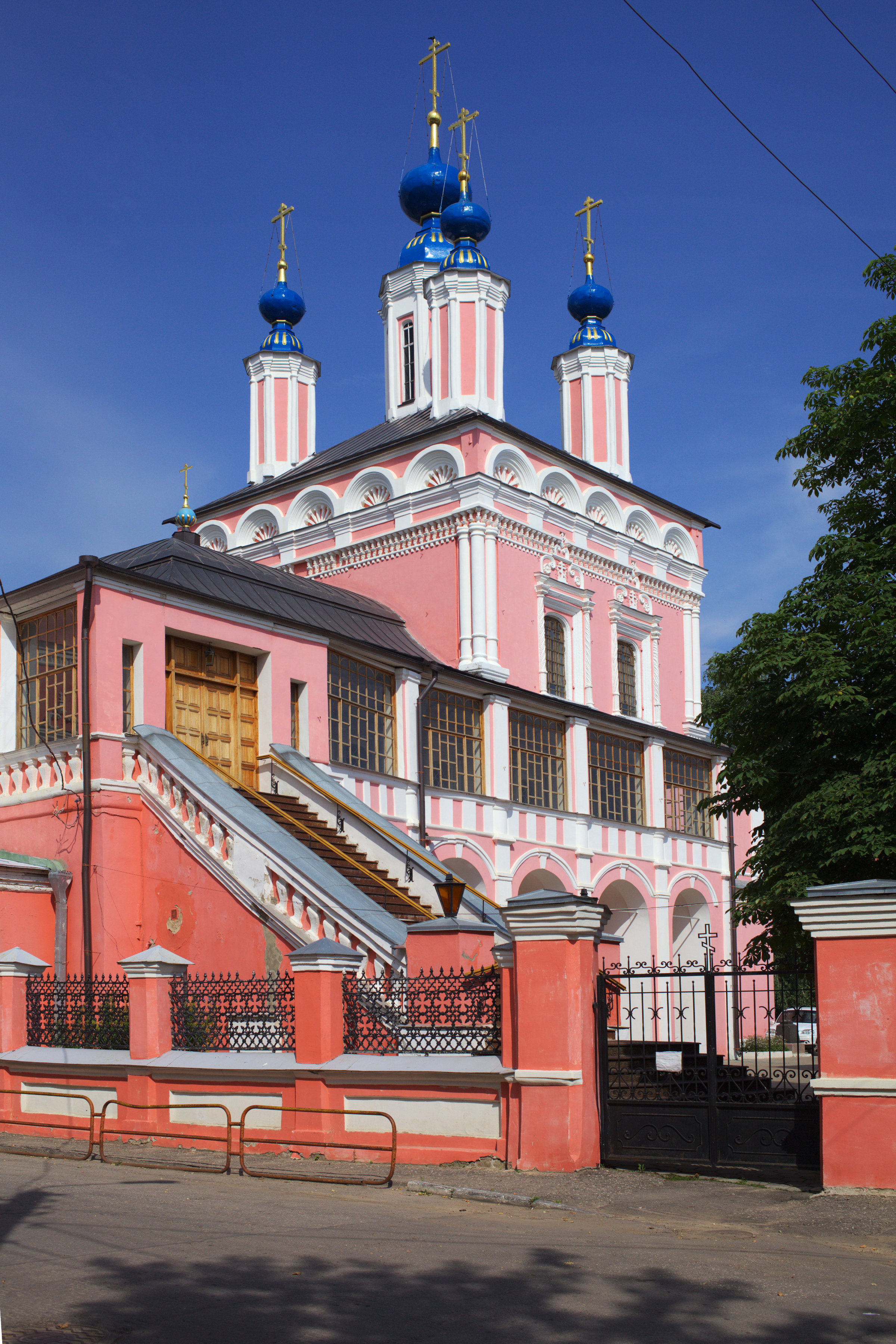 St. George church, Kaluga